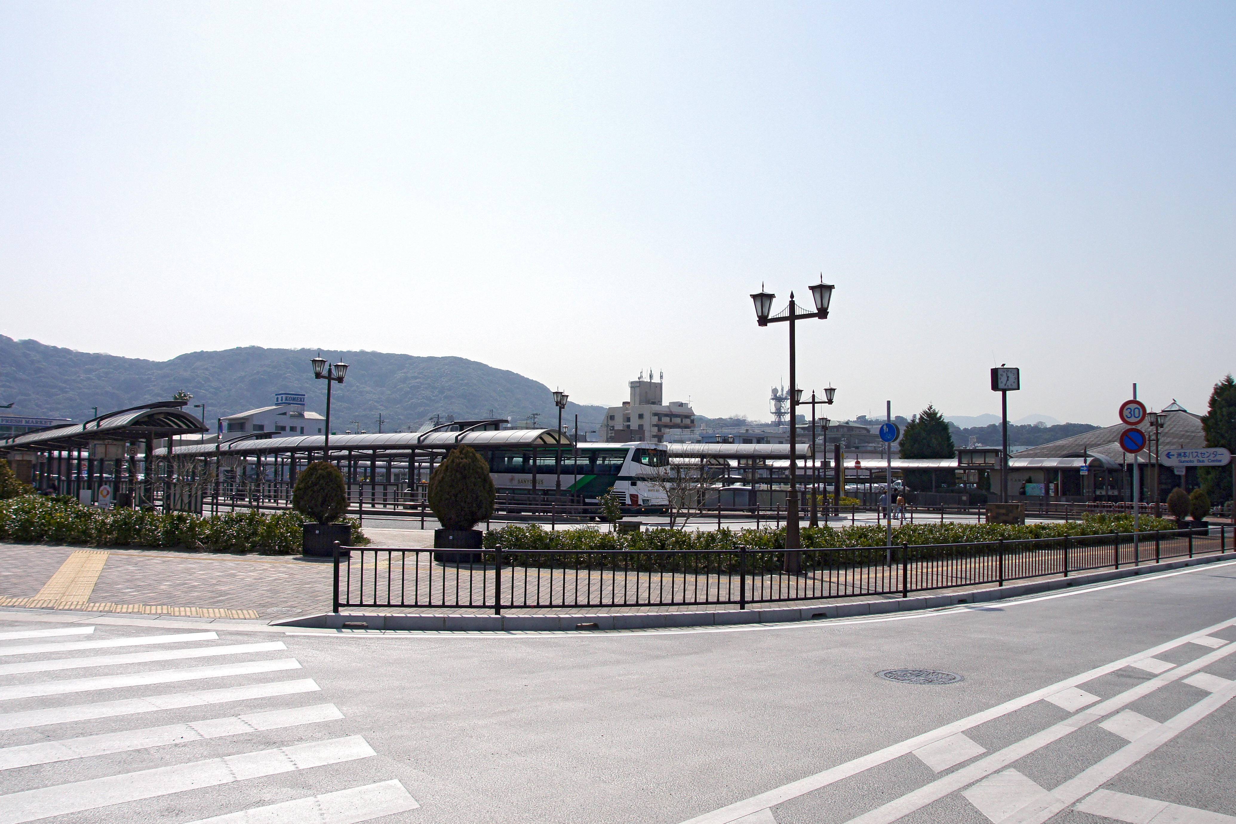 Sumoto Bus Center in Sumoto, Hyogo prefecture, Japan.